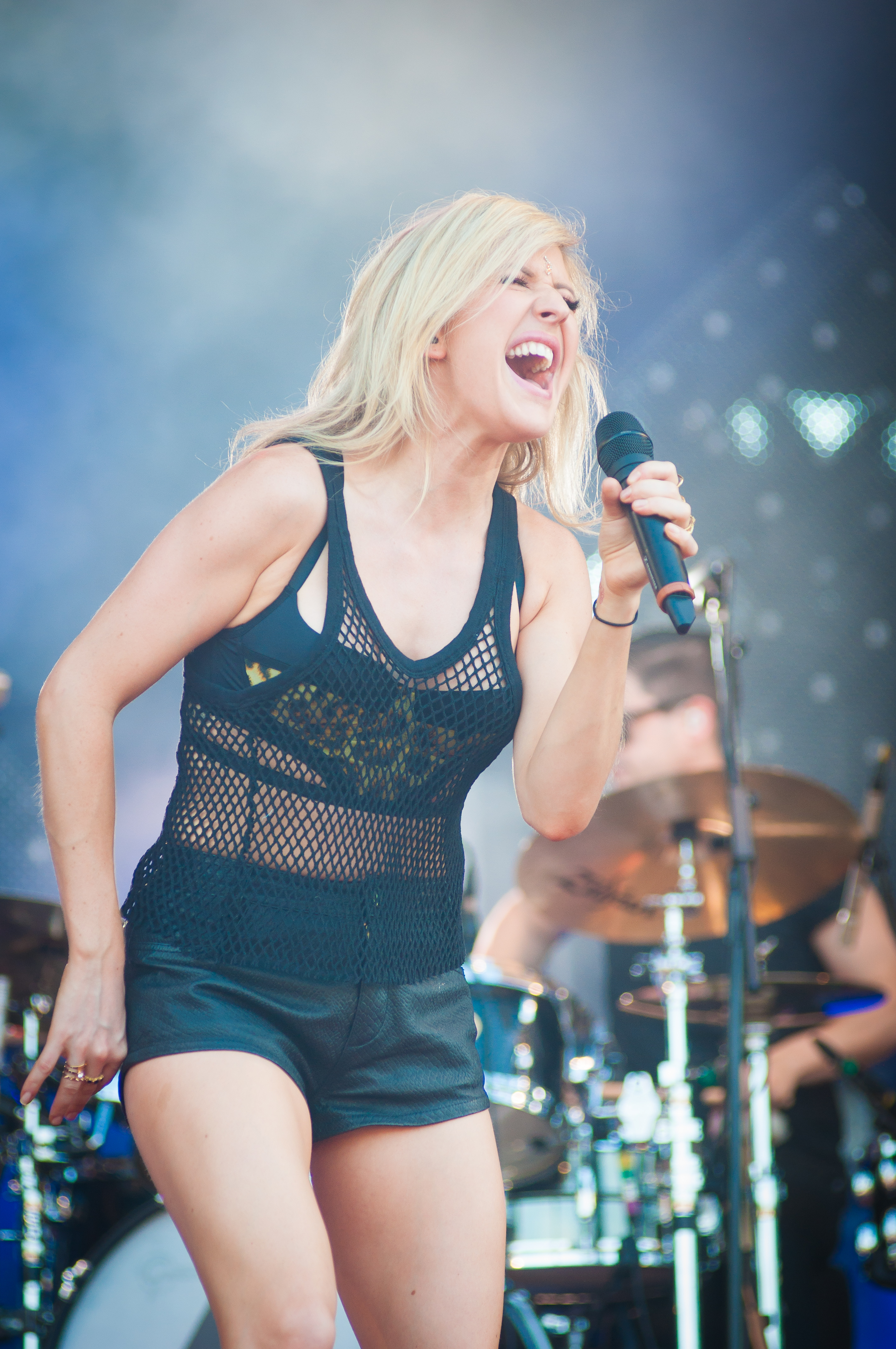 English singer Ellie Goulding performing at the 2014 Ilosaarirock festival in Joensuu, Finland.